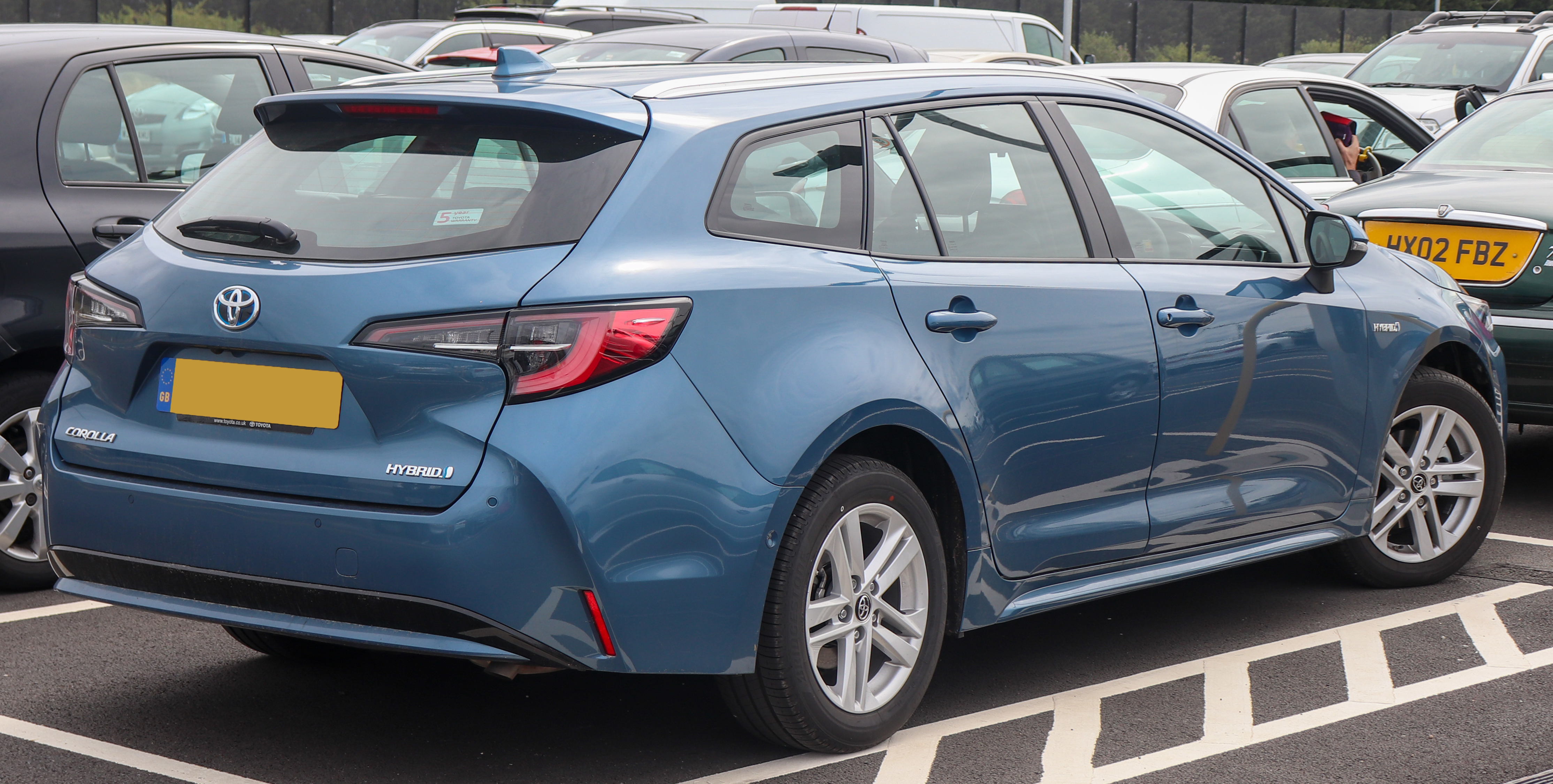 2019 Toyota Corolla Touring Sport Icon Tech VVTi Hybrid Estate 1.8 Taken at the British Motor Museum, Gaydon